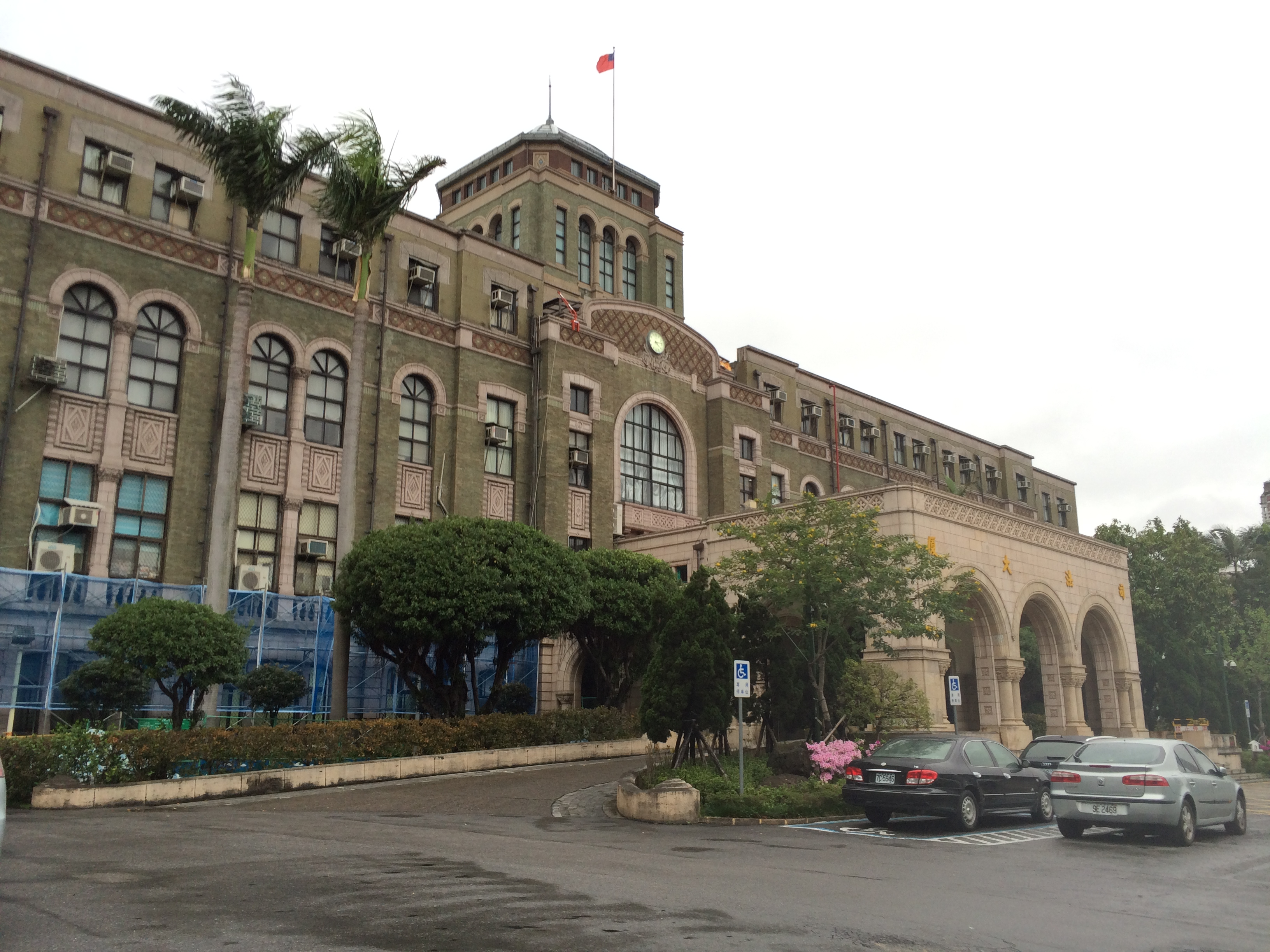 Judicial Yuan: The Highest Judicial Organ of the Republic of China(Taiwan).